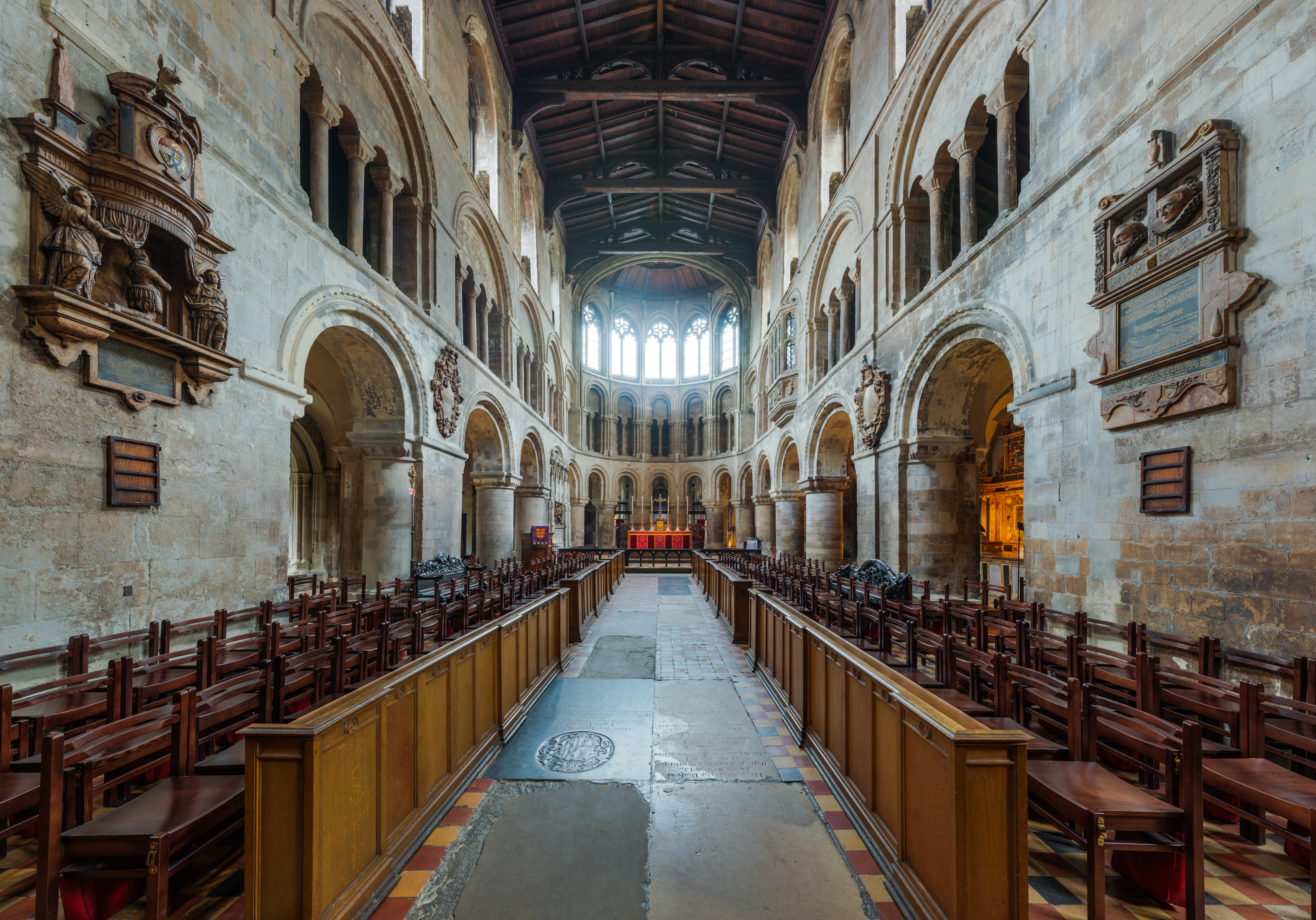 The view towards the altar of the Priory Church of St Bartholomew the Great in London, England.